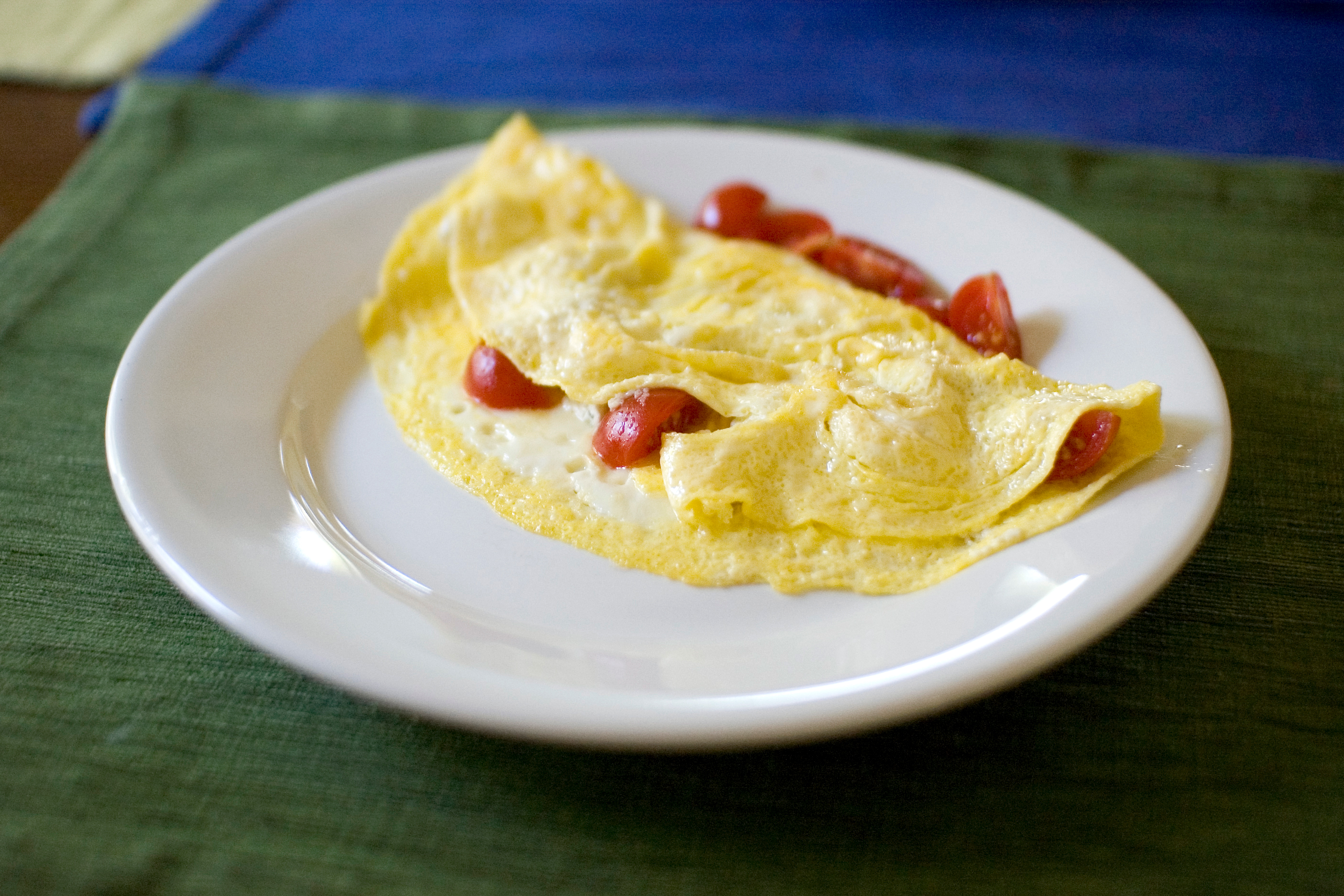 An omelette with butter and tomatoes.